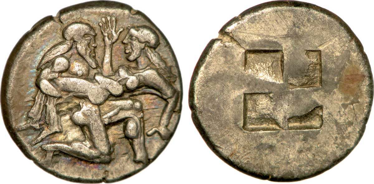 Thasos, statère au satyre ithyphallique. Date : c. 470-463 AC. Nom de l'atelier/ville : Thrace, Thasos